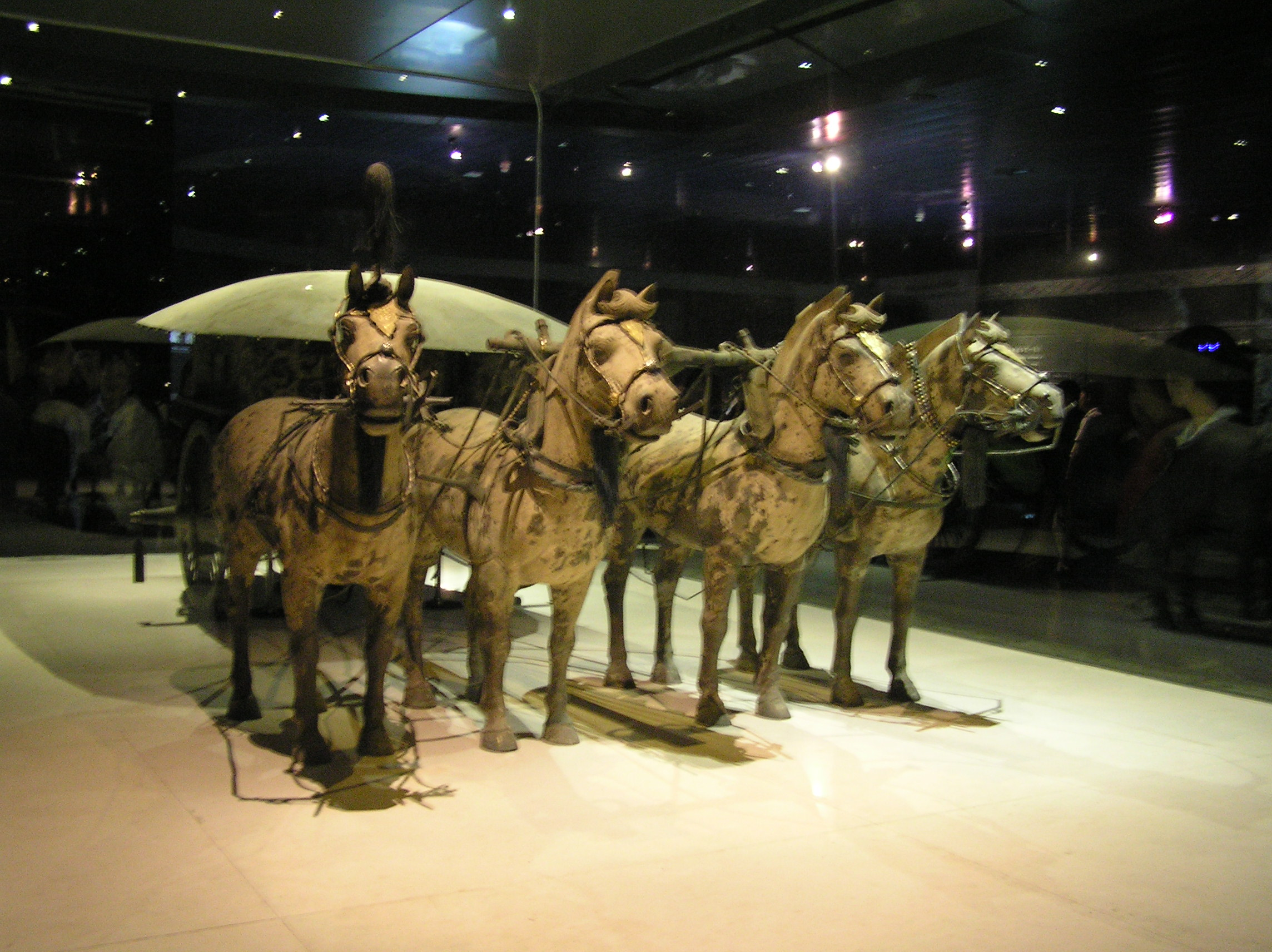 Four bronze horses with chariot. Must have been heavy to move. I took this pic in summer 2005. There were 2 of these bronze sculptures found together. Both of them with 4 horses. Together they are the largest bronze sculpture found in the world. When discovered, they were broken into more than 16,000 pieces. Now they are completely restored